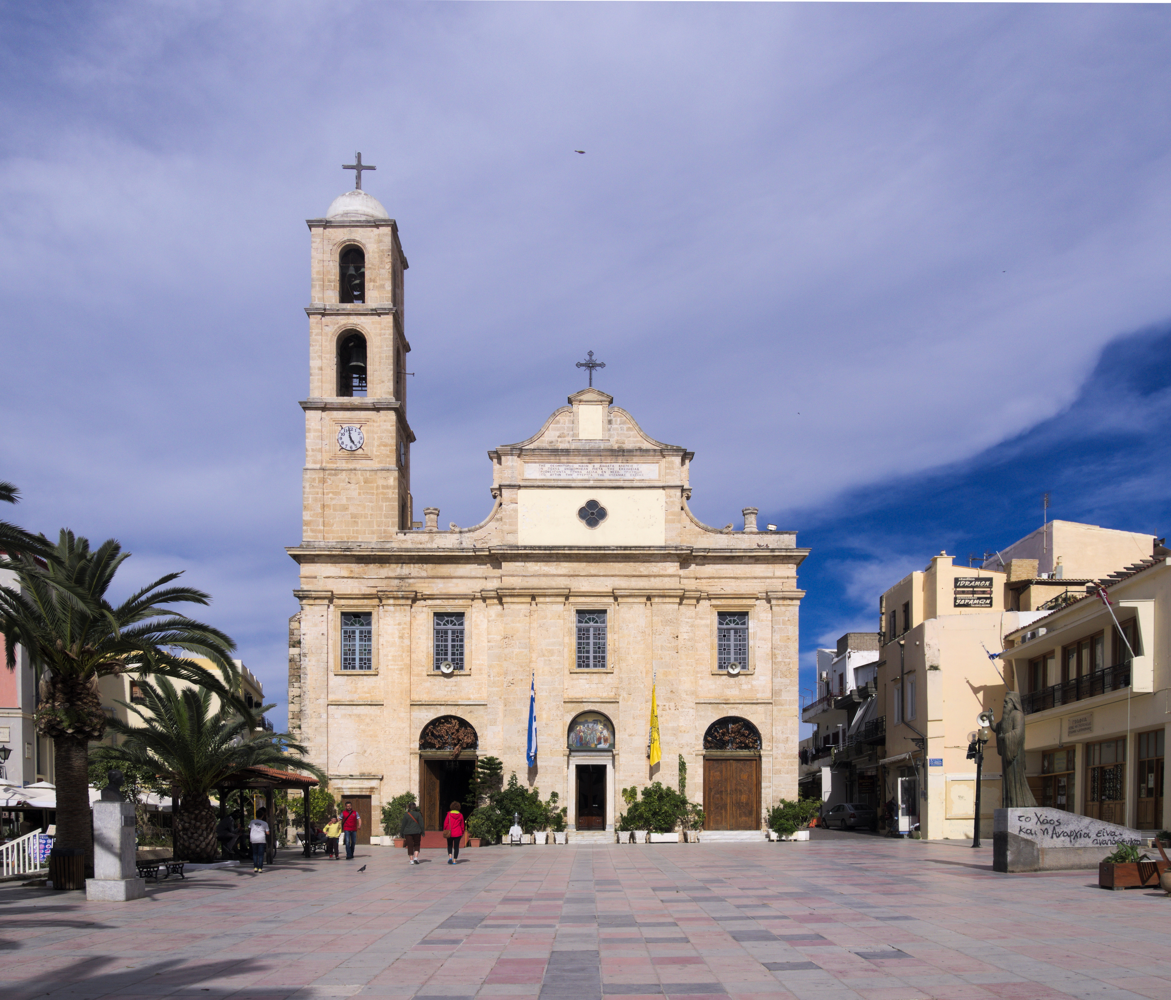 The orthodox metropolitan church of Chania, at Athinagora square, at afternoon.